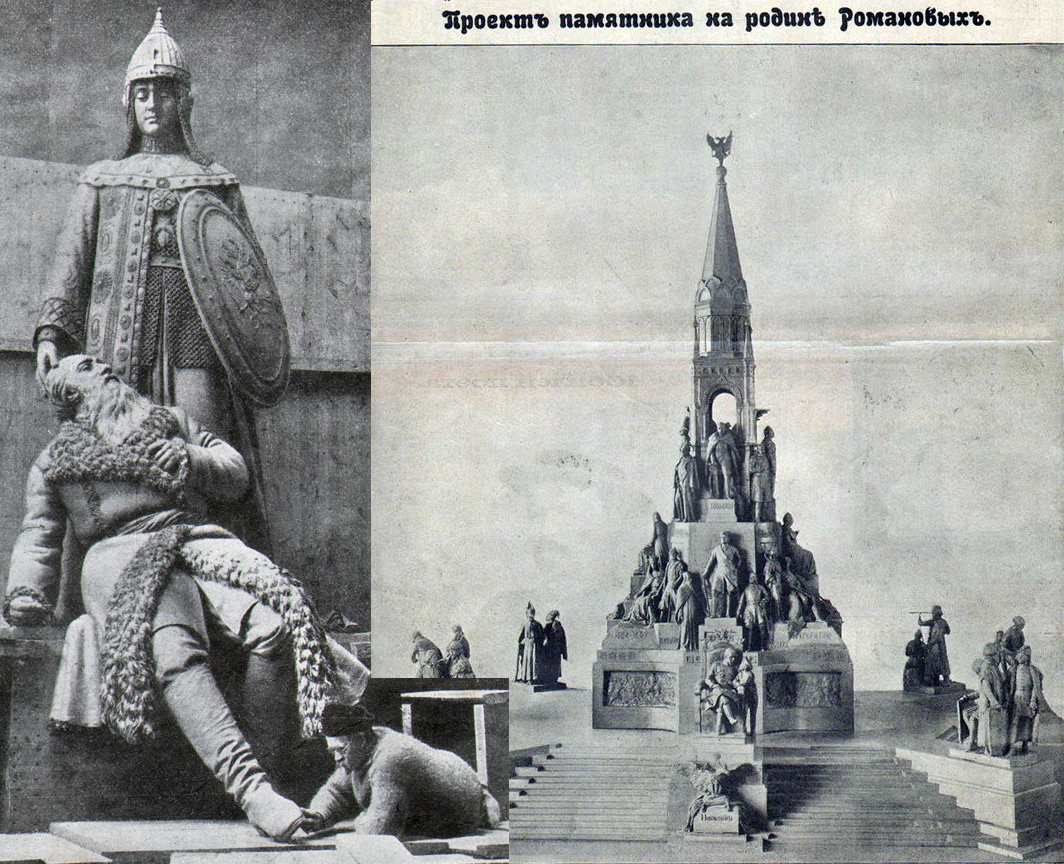 Amandus Heinrich Adamson working on the sculpture of Ivan Susanin